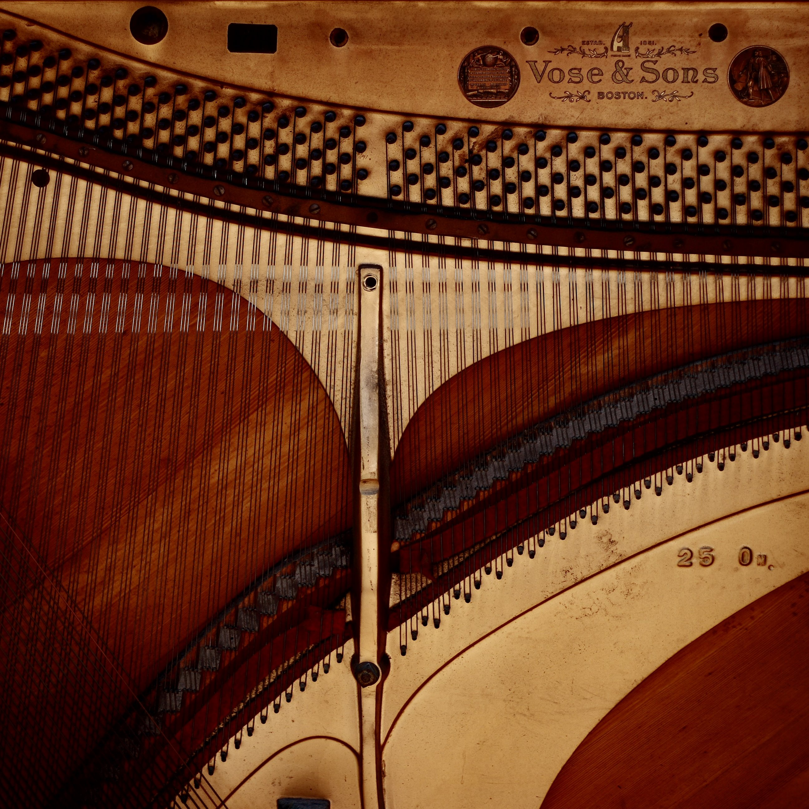 Part of the soundboard (or sounding board) of a Vose & Sons upright piano that has been disassembled.